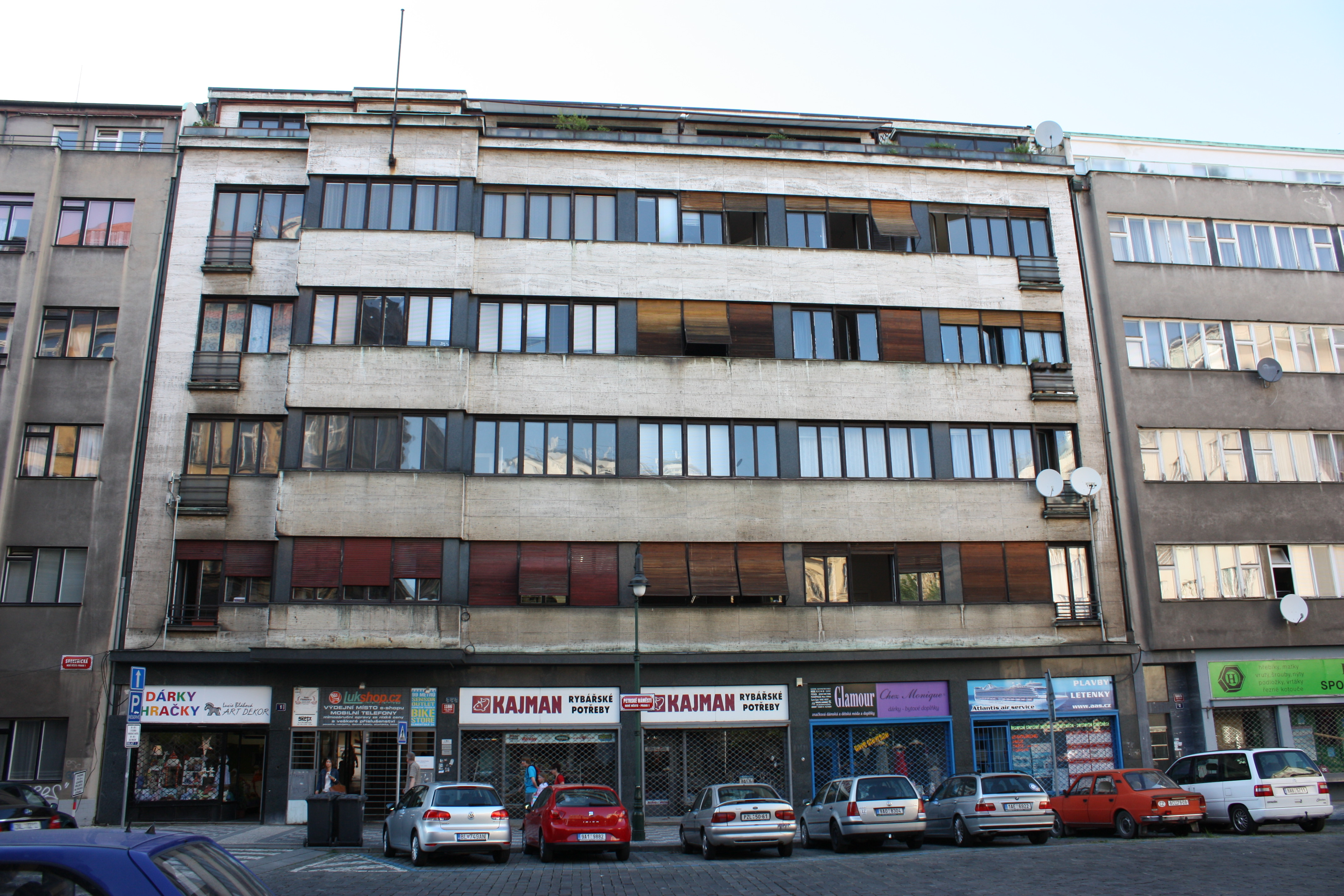 Petrské náměstí 1186/1, Prague 1 – Nové Město.